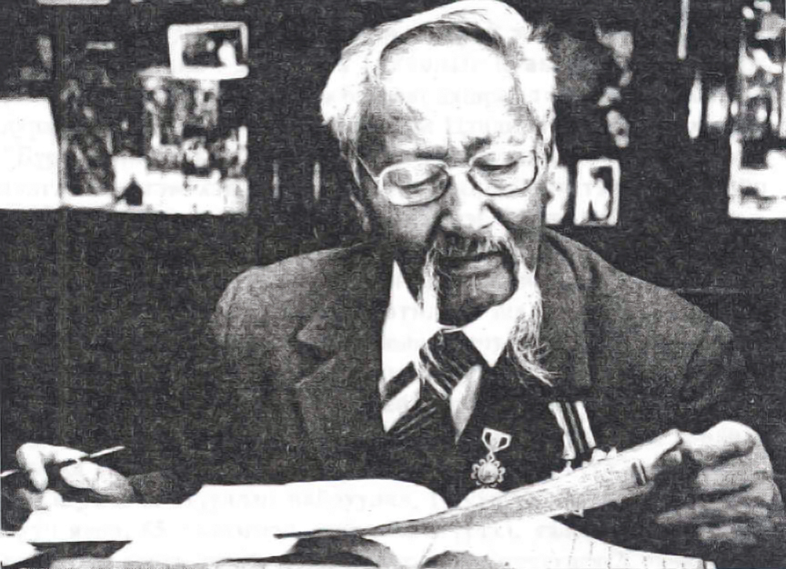 tsendiin Damdinsuren Монгол: Цэндийн Дамдинсүрэн